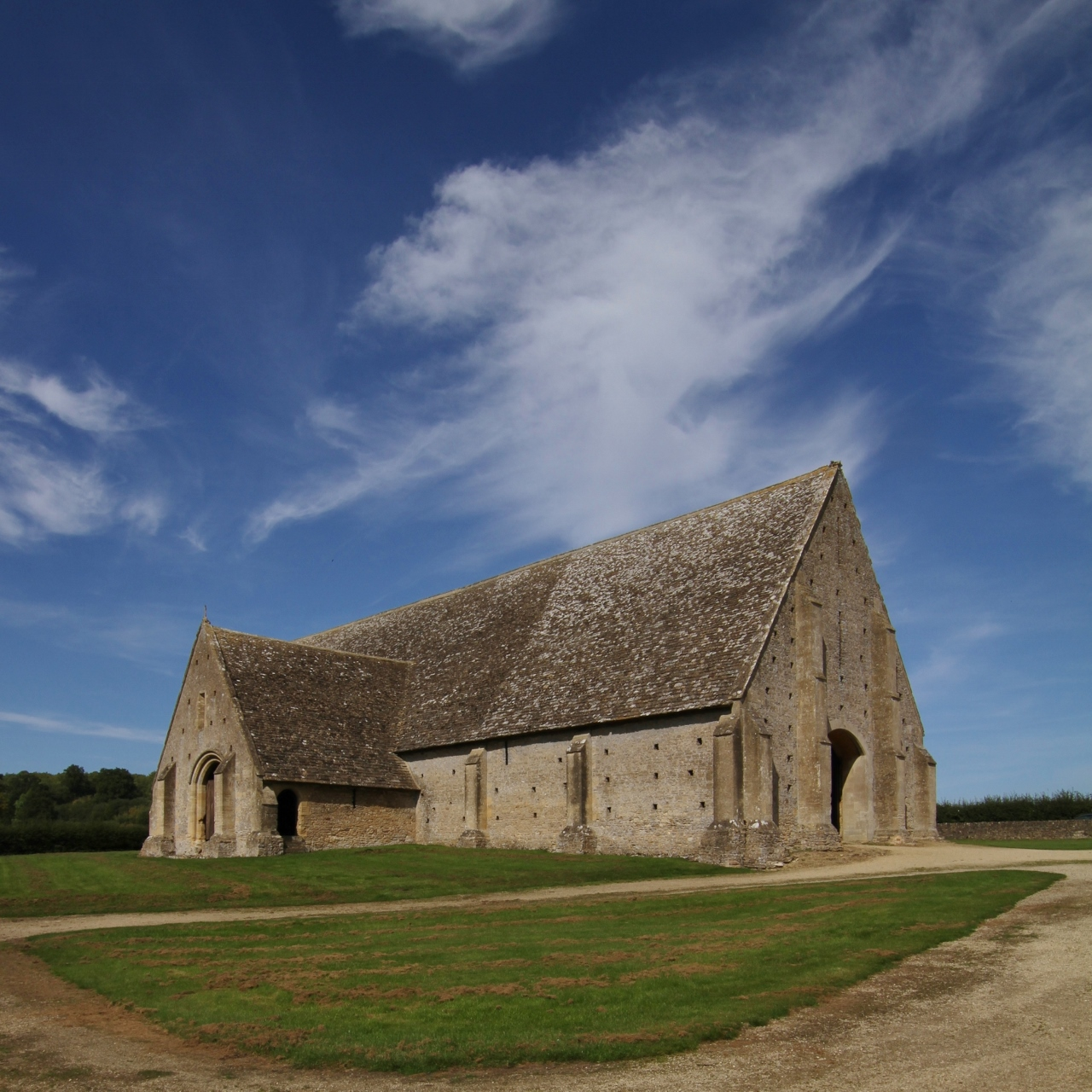 Mediæval barn at Great Coxwell, Oxfordshire (formerly Berkshire), seen from the southwest